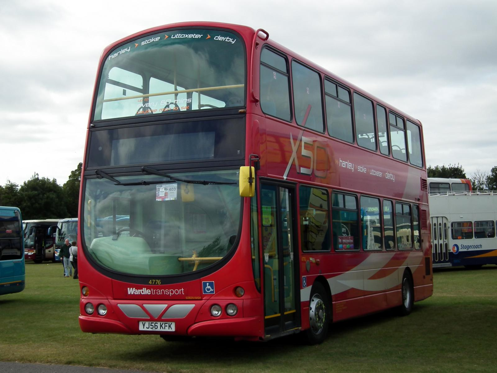 Wardle Transport 4776 (YJ56 KFK), a VDL DB250/Wright Pulsar Gemini, seen at Showbus 2012.